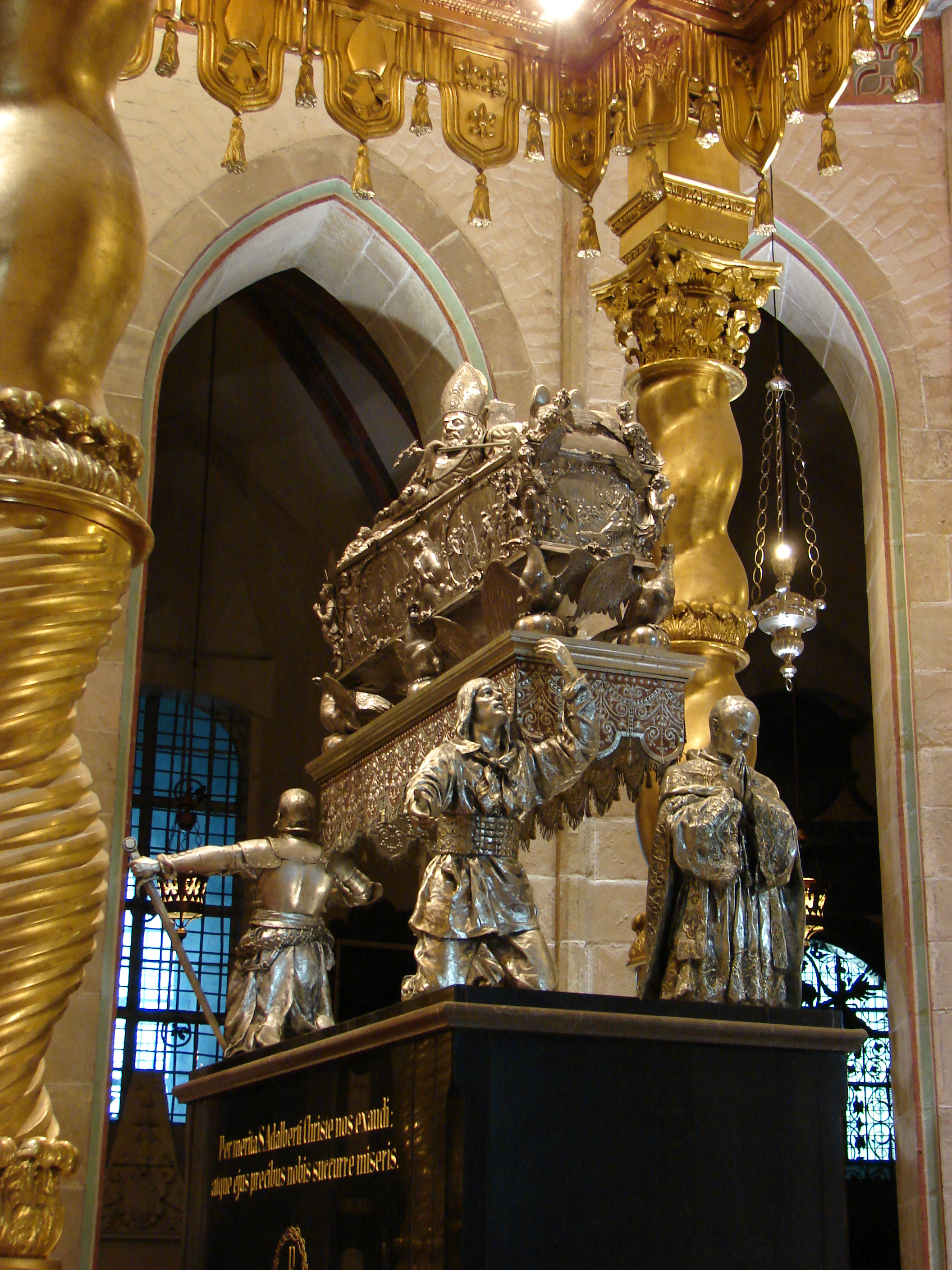 Silver coffin of St. Adalbert, Cathedral in Gniezno, Poland